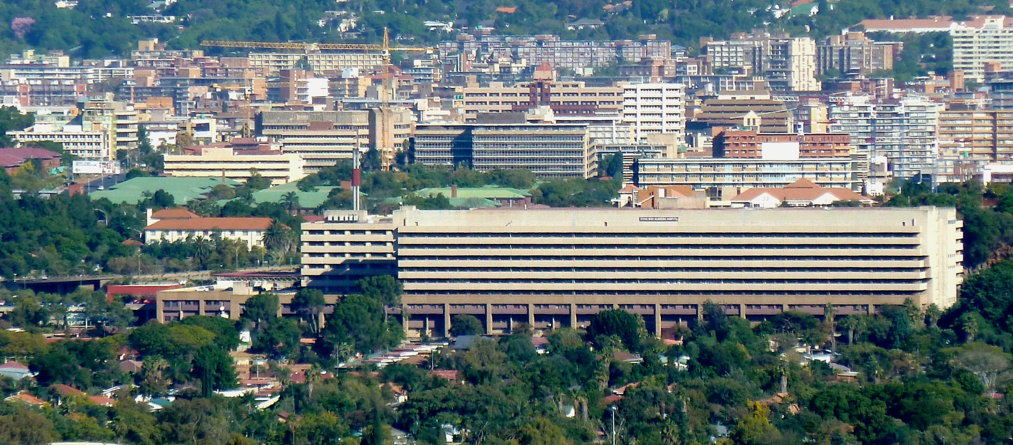 Steve Biko Academic Hospital in Prinshof 349-Jr, Pretoria. The red roofs of the Tshwane District Hospital can be seen right behind it.